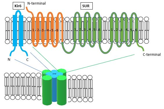 Potasium-ATP dependent channel structure, conformed by ABCC9 and Kir6 proteins.